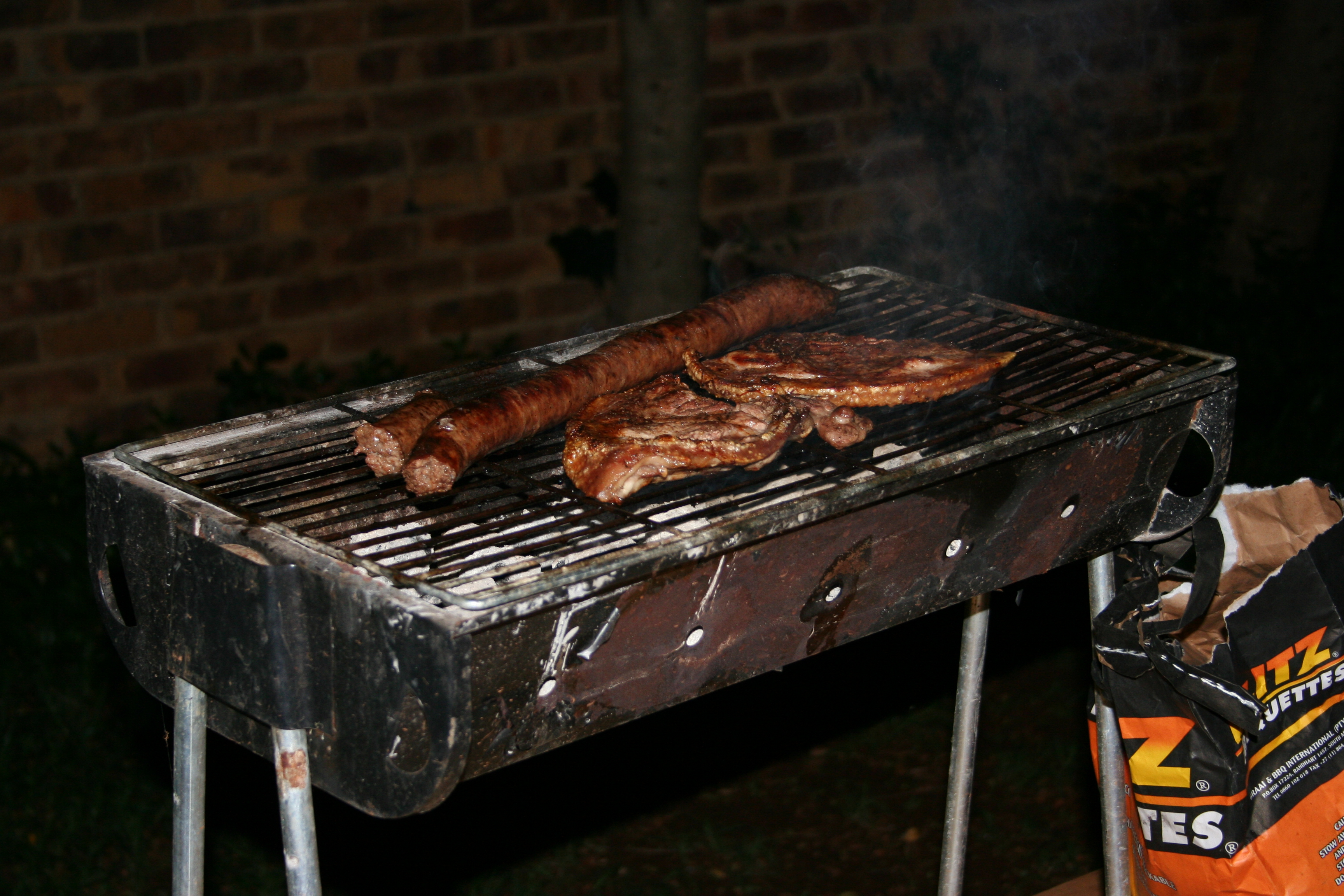 Taken by Rudolph Botha on 2006/12/03. Image taken for Wikipedia of a braaistand during a South African braai.